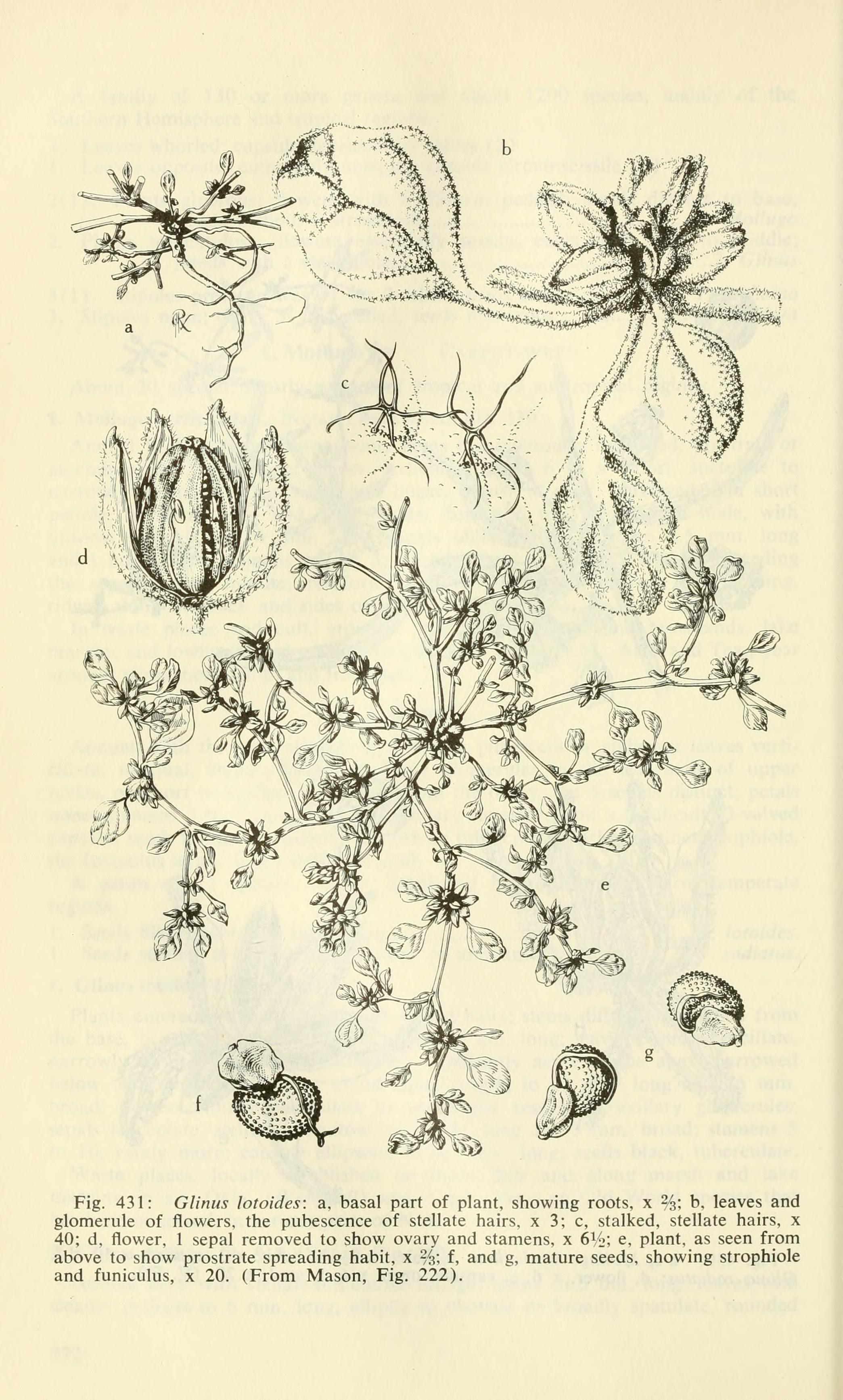 Aquatic and wetland plants of southwestern United States, by Donovan S. Correll and Helen B. Correll.